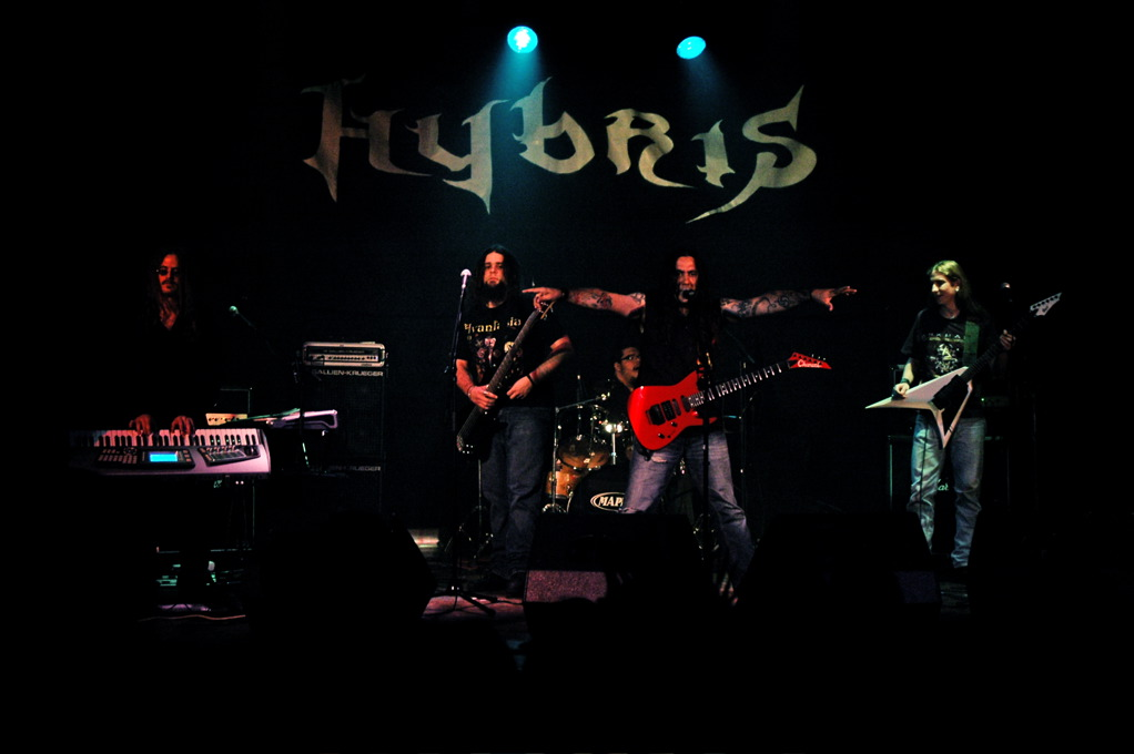 K-Os Rock Fest of 2008